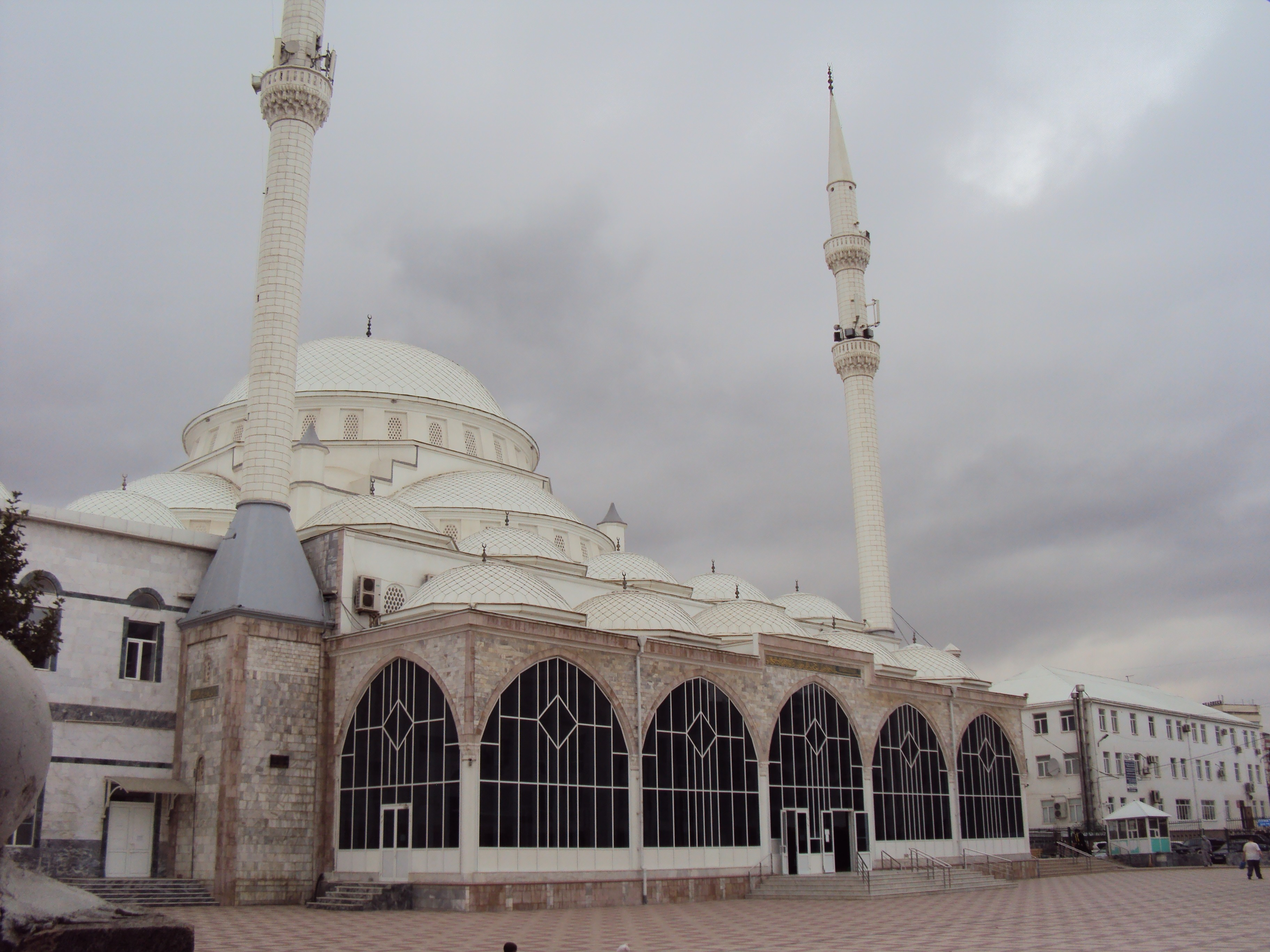 Central mosque of Makhachkala - Dagestan Republic (Russian Federation)